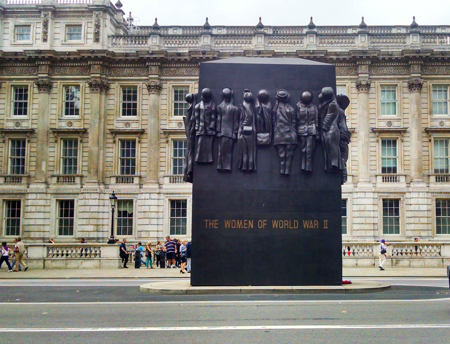 View of the Monument to the Women of World War II in London, England.